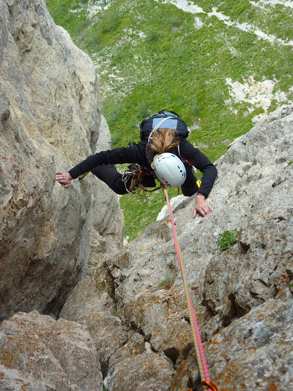 Pic Saint Michel, Éperon SE